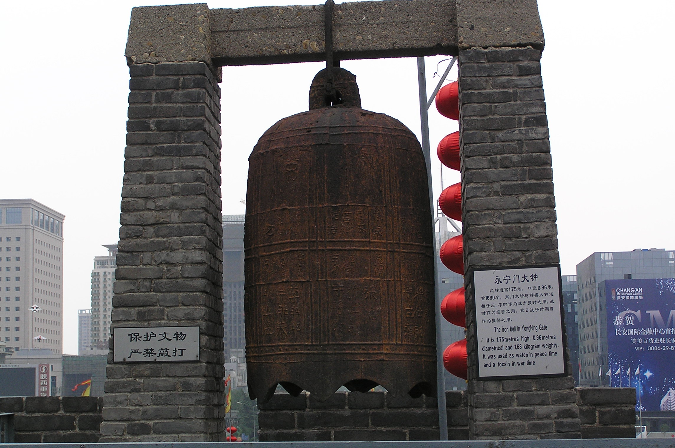 Iron Bell in YongNing Gate (City Walls, Xian, China) Author: Mr. Tickle Date: 07/22, 2005